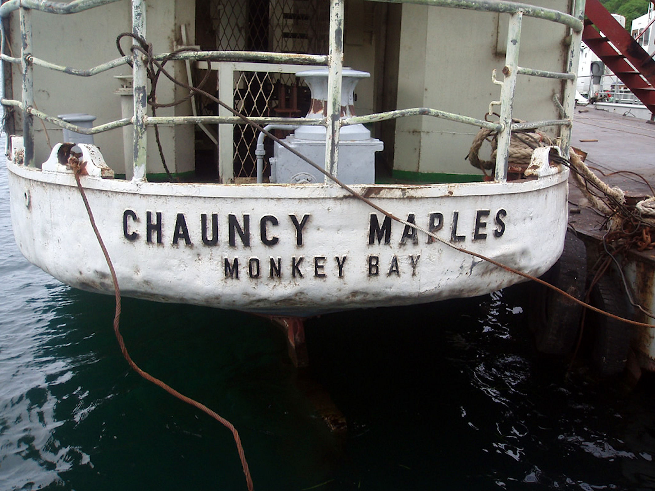 Chauncy Maples in 2008